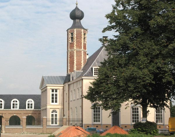 photo Kasteeltje Nieuw-Herlaar